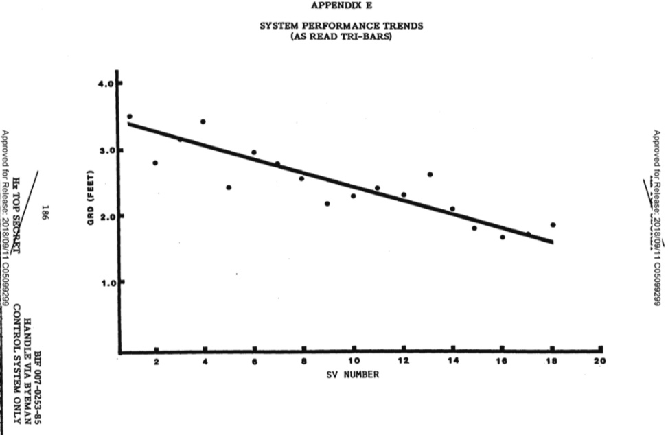 Ground resolution of KH-9 HEXAGON's main camera system (trend as a function of mission number), with extrapolation of redacted data.